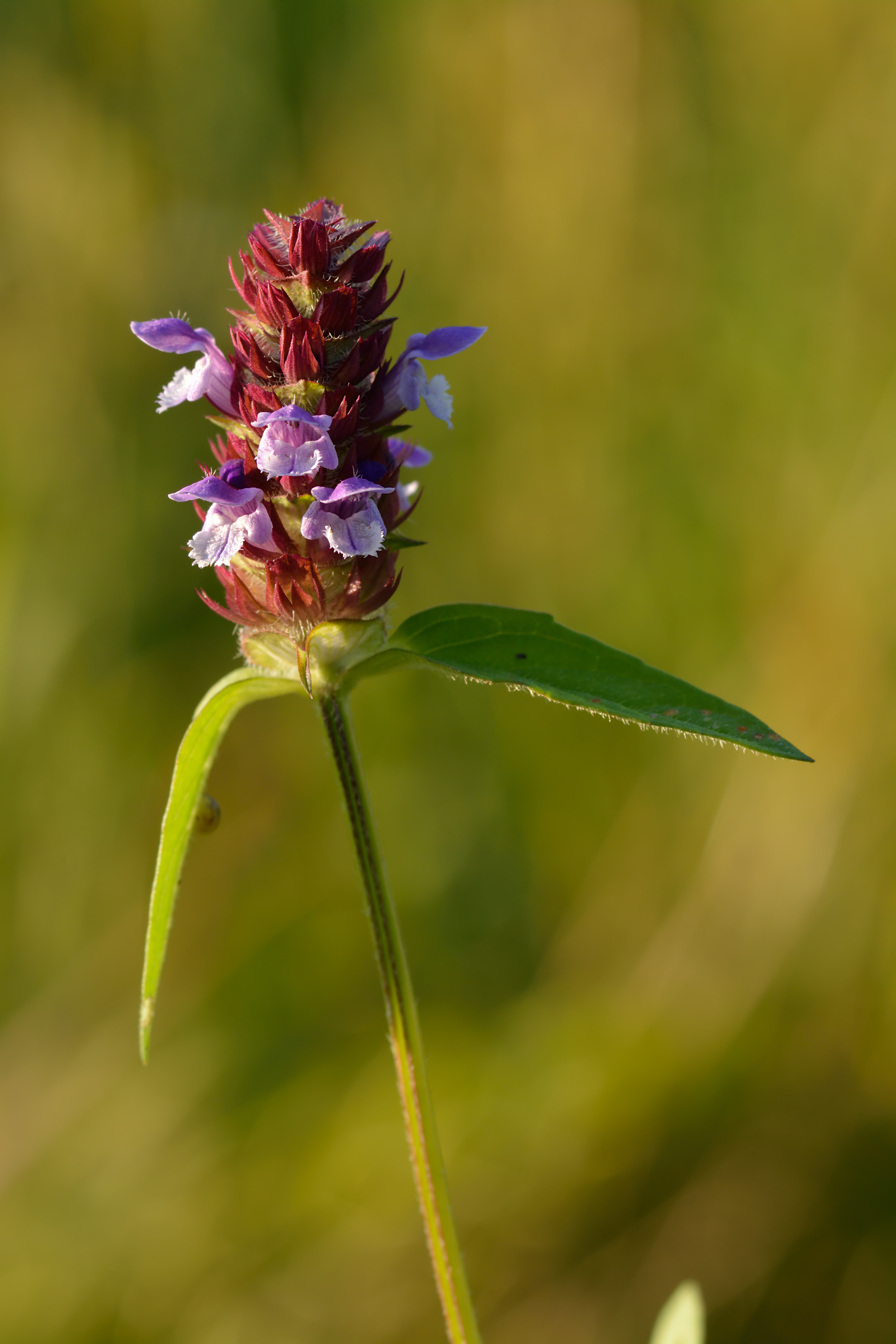 Common self-heal (Prunella vulgaris). Keila, Northwestern Estonia.